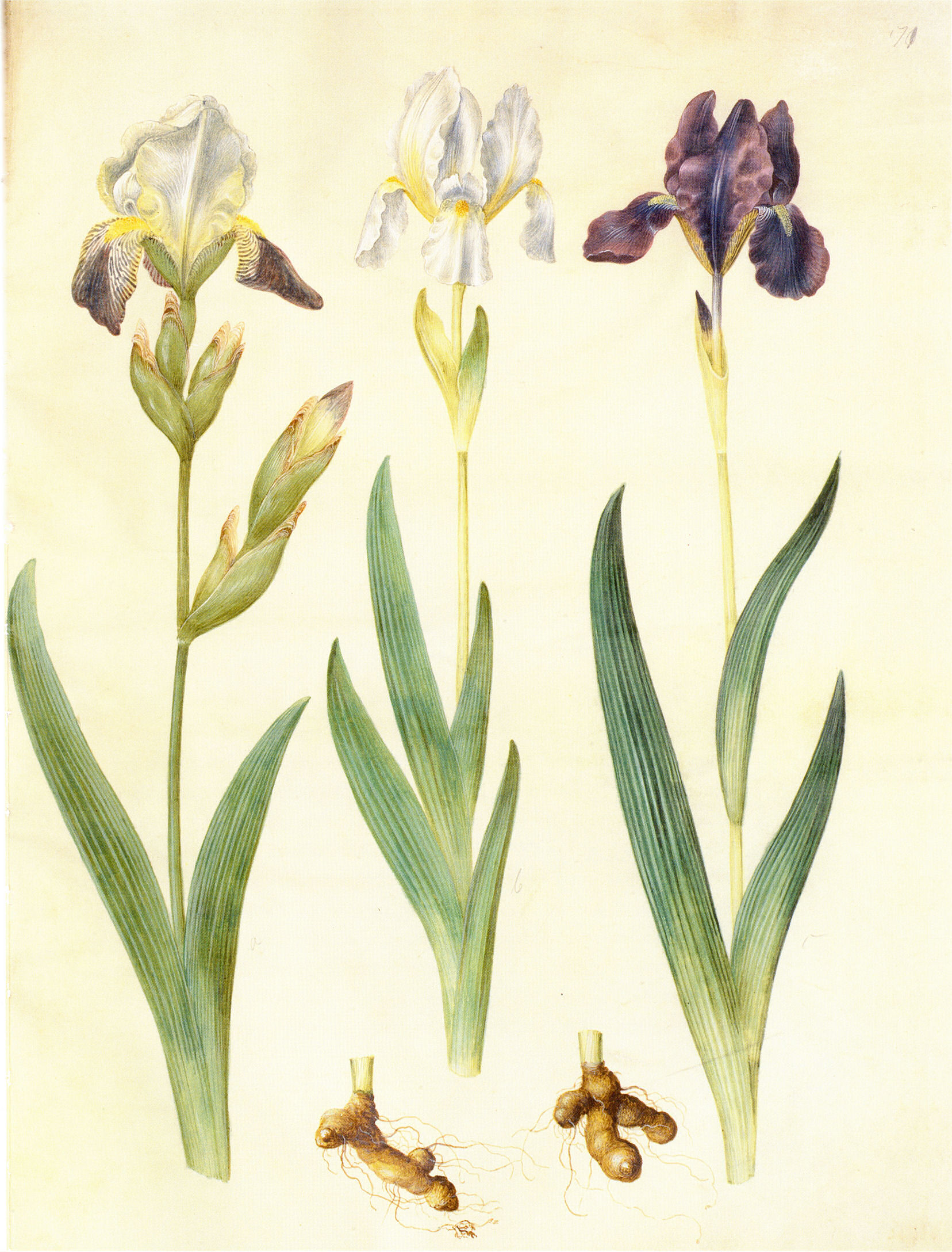 Iris germanica, gouache on vellum, in: Gottorfer Codex